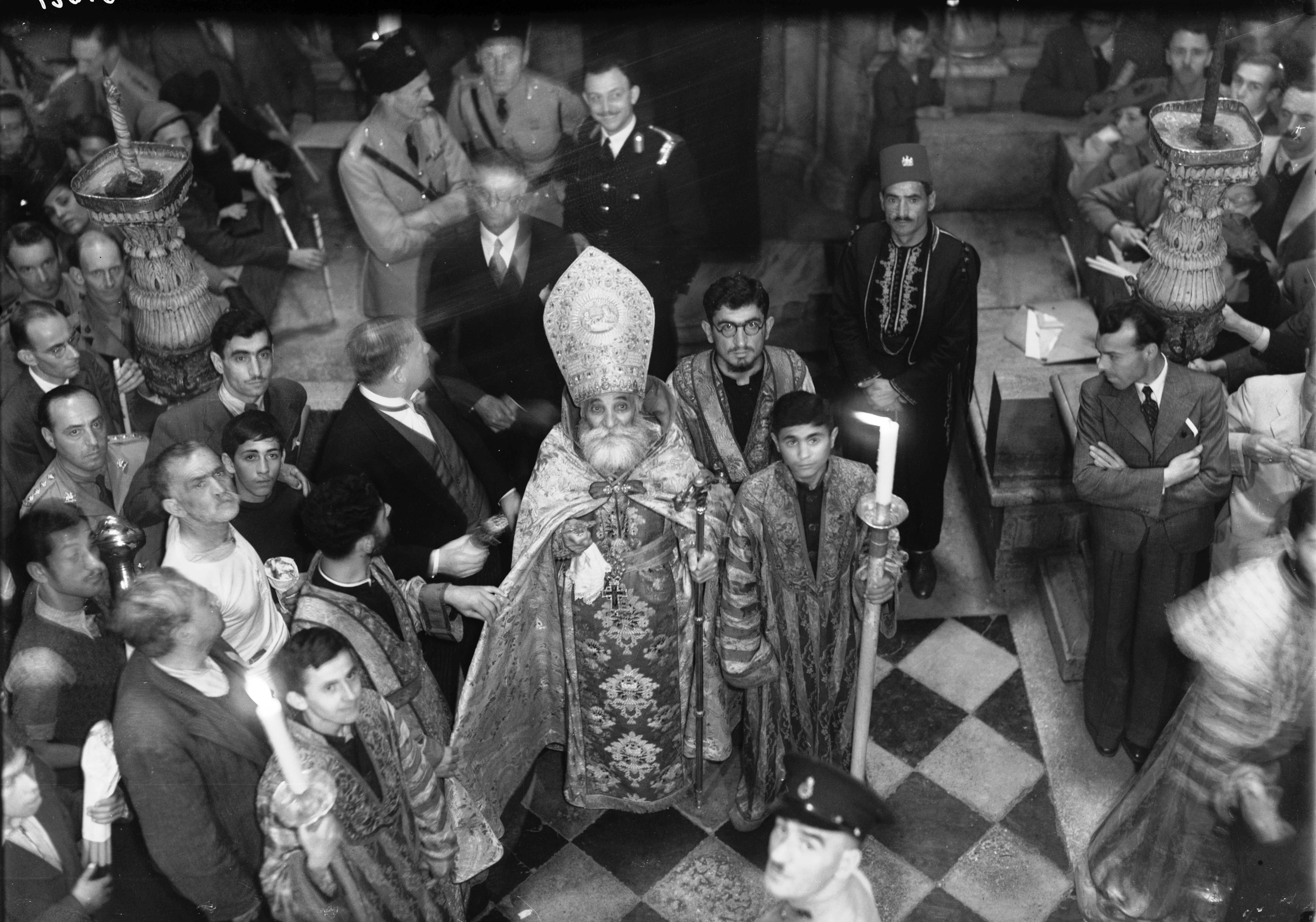 Calendar of religious ceremonies in Jer. [i.e., Jerusalem] Easter period, 1941. Orthodox Holy Fire.